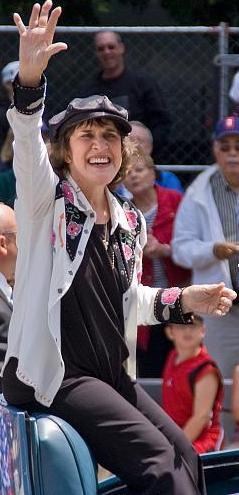 Ruth Buzzi. Cropped from original.